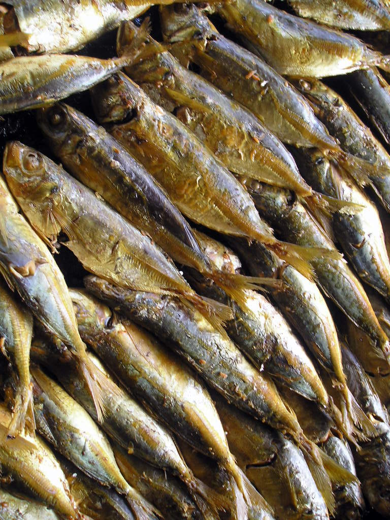 Olympus Camedia (SRI Field Day in Bataan, August 2005). Slightly improved with Picasa.